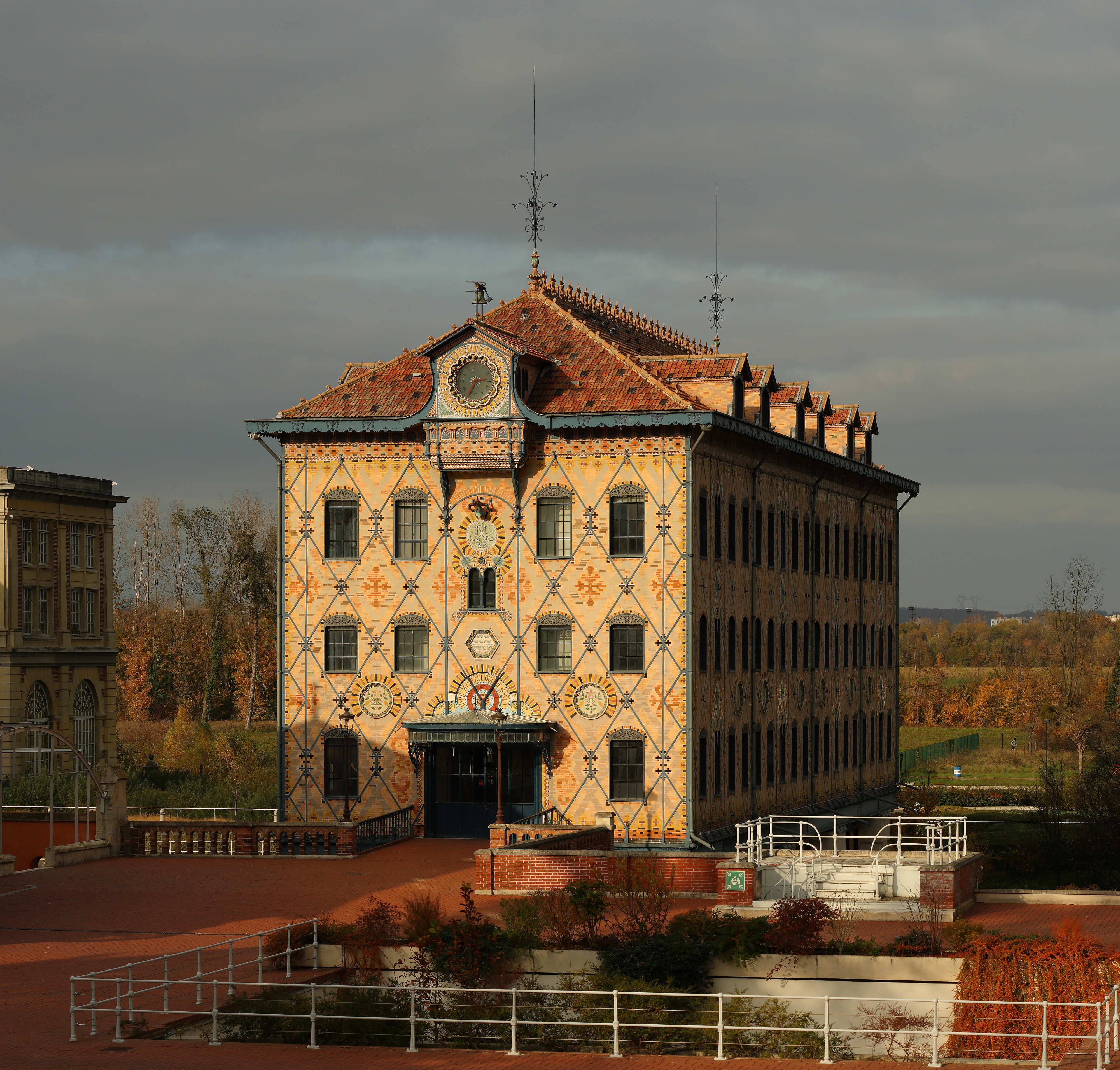 Saulnier Watermill, in the Menier chocolate factory, Noisiel, France. Built in 1872, it was the first building in the world with a visible metallic structure and is also characterized by its ceramic tiles patterns. The three years above the entrance correspond respectively to the year the old mill was built (1157), the year the Menier factory was moved to Noisiel (1825) and to the year the Saulnier Mill replaced the old one. The Menier chocolate factory is now headquarters of Nestlé France. This picture is a mosaic of 6 photos (2x3) taken with a Canon EOS 400D+EF 100mm f/2.8 Macro at 100mm, f/8.0, 1/800 sec and ISO 200. Stitching was done with Hugin and Enblend.